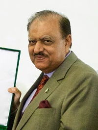 President Mamnoon Hussain presenting Ms. Jeannie Borlaug Laude with a gift celebrating Dr. Norman E. Borlaug's 100th birthday and commemorating 50 years of U.S.-Pakistan cooperation in agriculture.